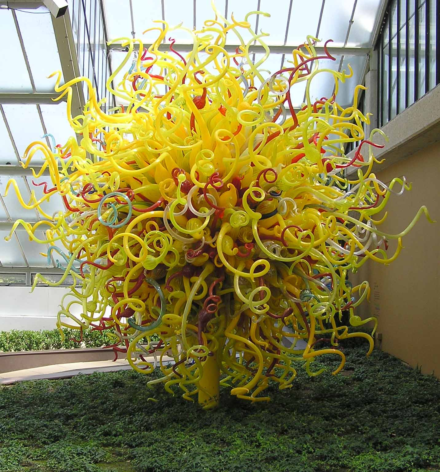 A glass sculpture “The Sun” at the “Gardens of Glass” exhibition in Kew Gardens, London, England. The piece is 13 feet (4 metres) high and made from 1000 separate glass objects. The sculptor is Dale Chihuly